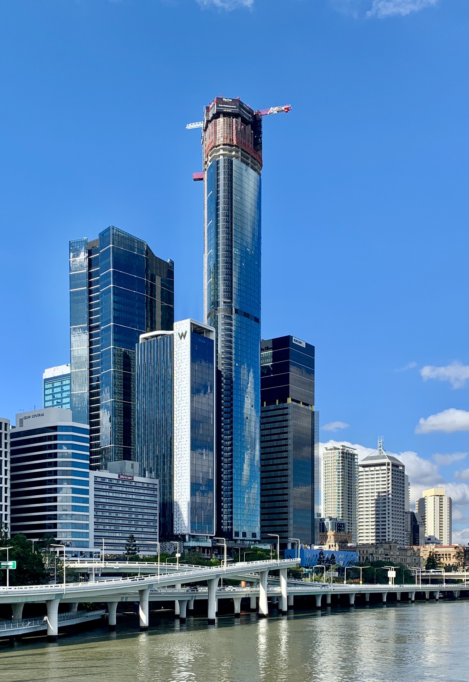 The One under construction, Brisbane Quarter, Queensland, June 2020